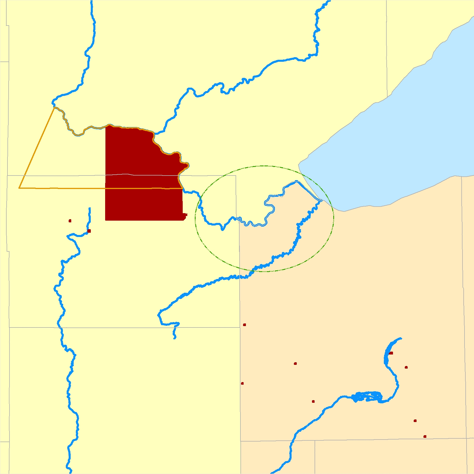 Map showing the original Fond du Lac of Lake Superior Chippewa area, the 1854-1858 Fond du Lac Indian Reservation boundaries, 1858-present Fond du Lac Indian Reservation boundaries, off-reservation Fond du Lac land holdings, and Minnesota Chippewa Tribe land holdings to which Fond du Lac Band exert jurisdiction.